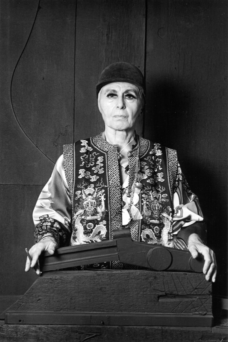 Louise Nevelson photographed in her studio, 1976 ©Lynn Gilbert